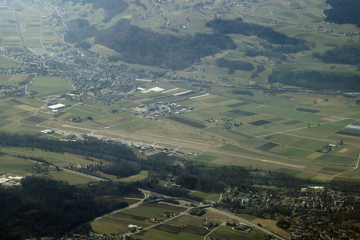 Aerial photo of Bern Belp Airport